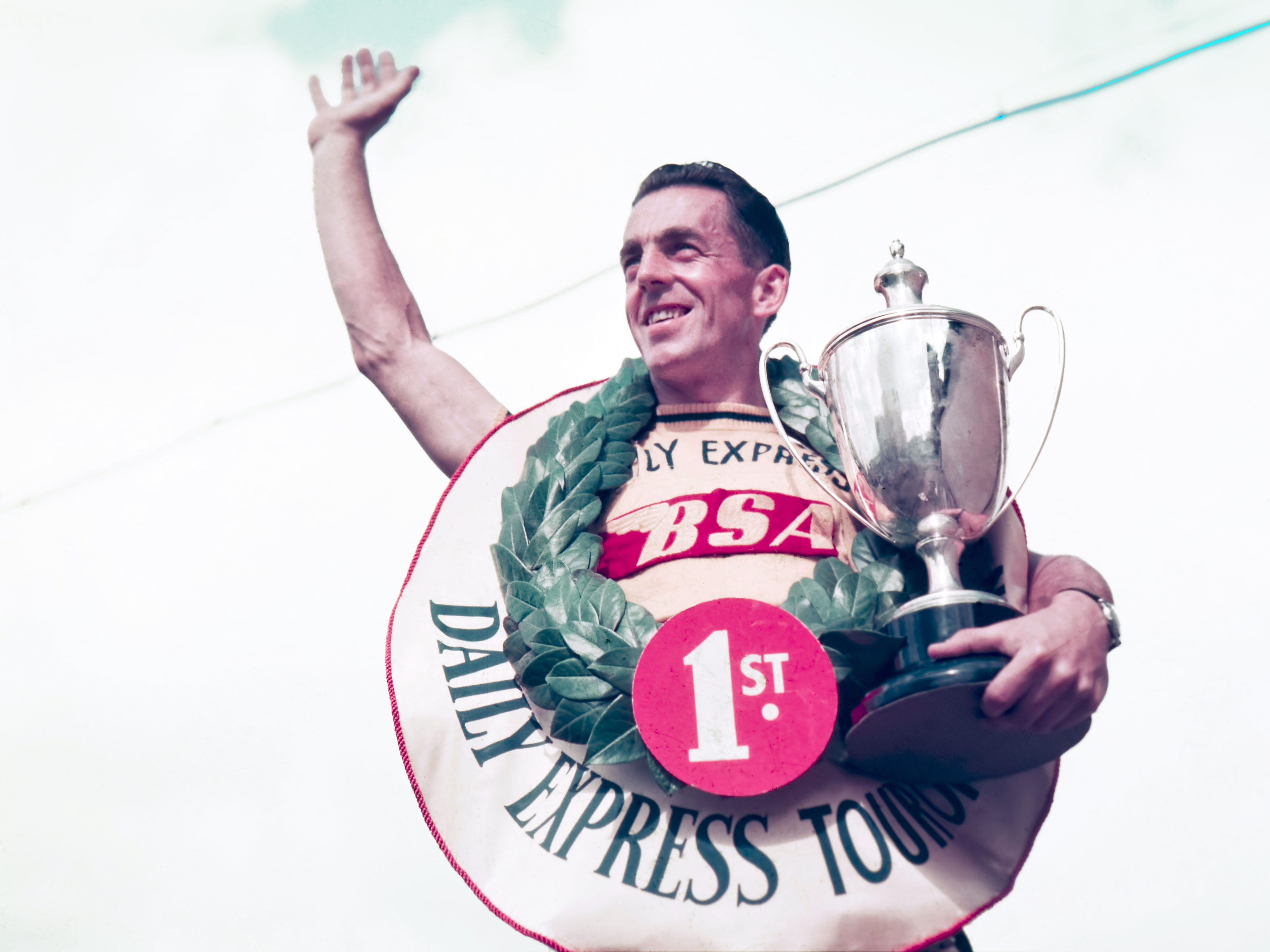 A photograph of an original colour positive slide of Gordon Thomas receiving the 1953 Tour of Britain winners cup.